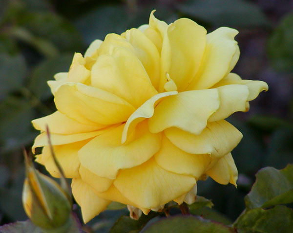 Photo of Rosa 'Landora' at the San Jose Heritage Rose Garden